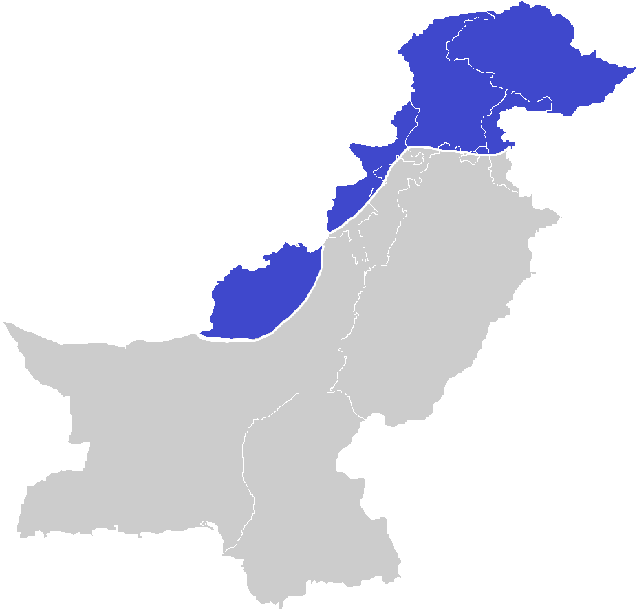 Region: North half of Azad Kashmir, Gilgit-Baltistan, Extreme northern Punjab, Northern half of Khyber-Pakhtunkhawa province and Northern Balochistan. Personal estimation.